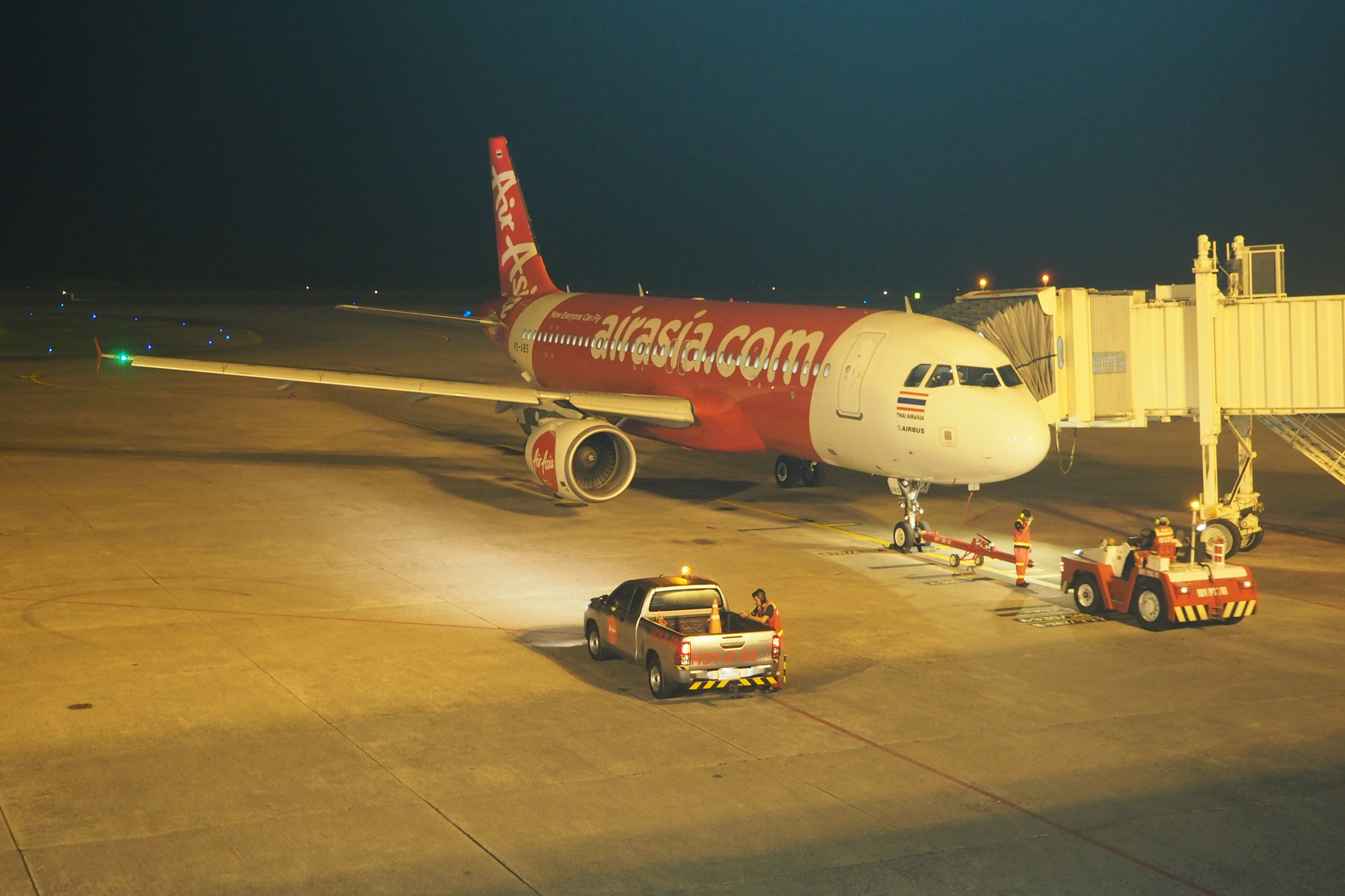 Thai AirAsia HS-ABS parked at Hat Yai